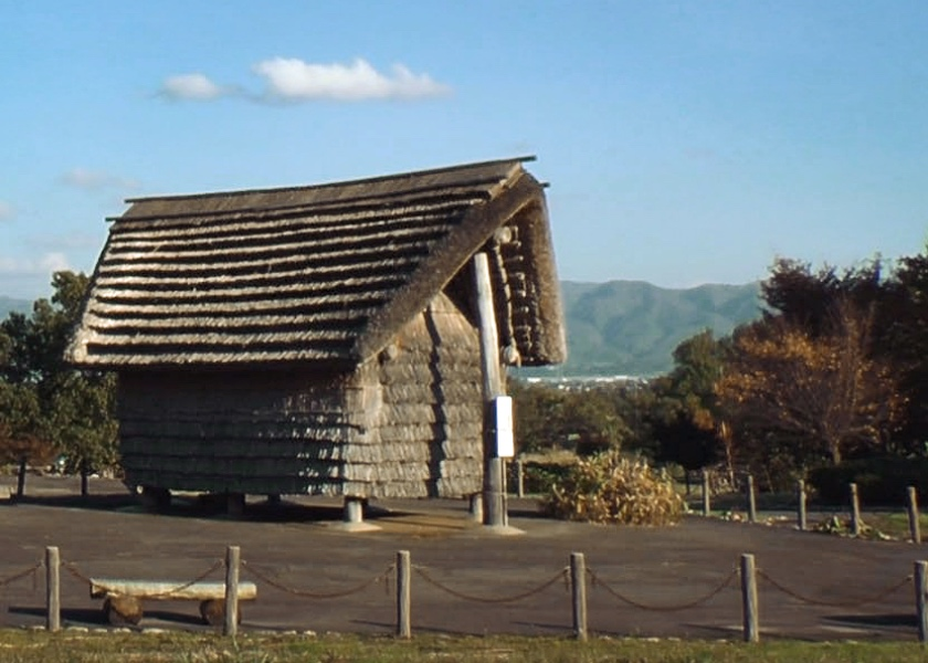 Reconstructed building at Fujihashi Site, Nagaoka, Niigata, Japan